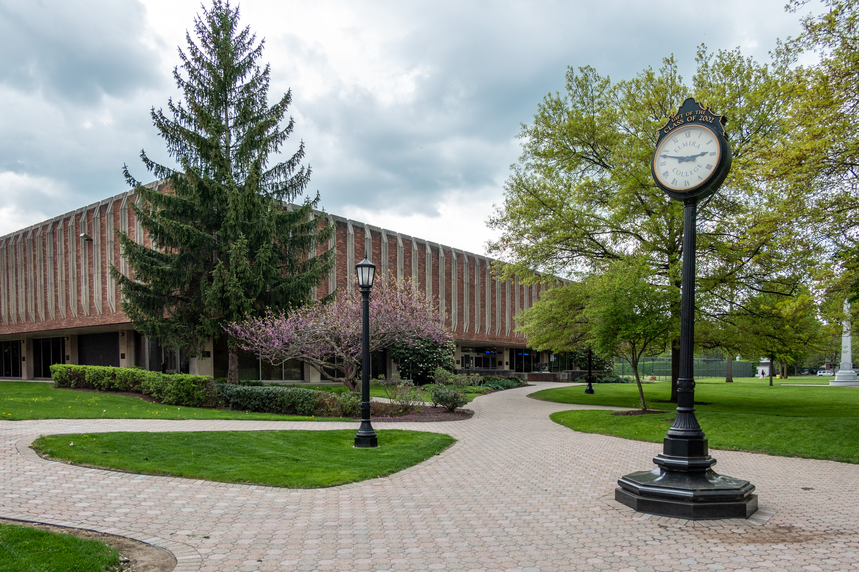 Gannett Tripp Library, Elmira College, Elmira New York